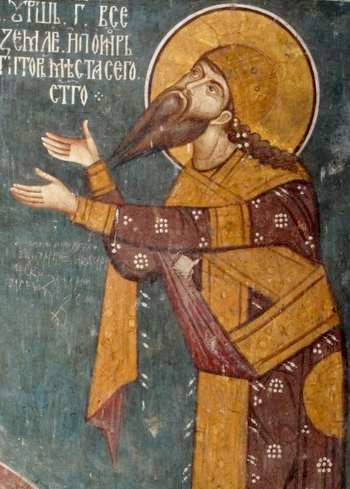 The fresco of king Stefan Dečanski praying to the Angel, Dečani, Serbia